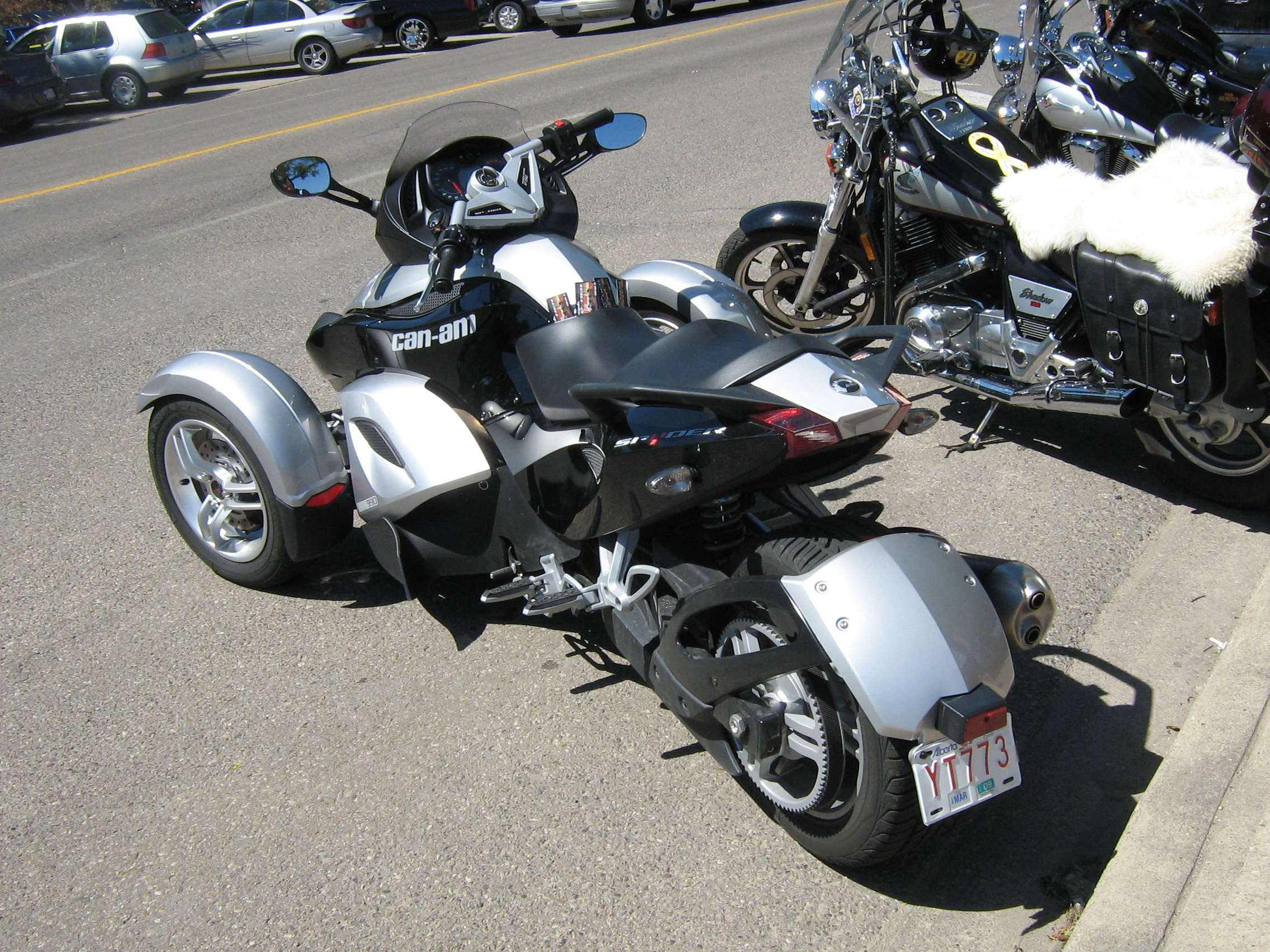 2008 Can-Am Spyder seen outside the Lethbridge Street Wheelers Show and Shine